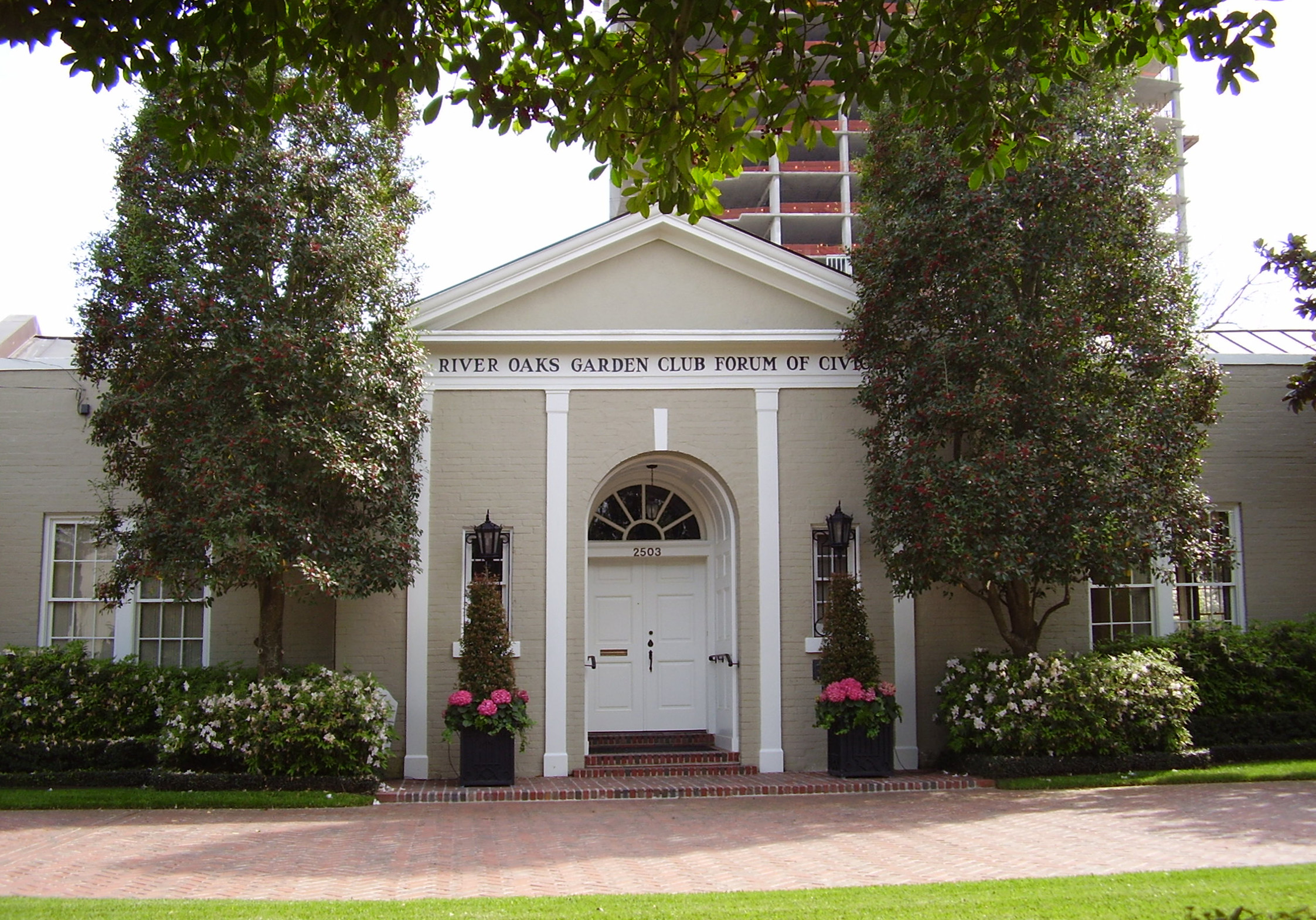 River Oaks Garden Club Forum of Civics, formerly the John Smith County School - Upper Kirby